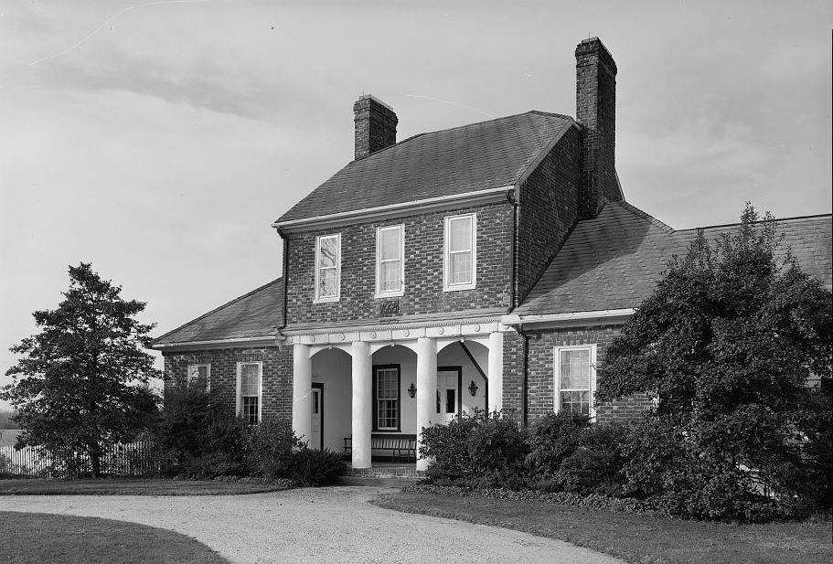 Bachelor's Hope, Manor Road, Chaptico vicinity, St. Mary's County, MD: Historic American Buildings Survey Frederick D. Nichols, Photographer 1937